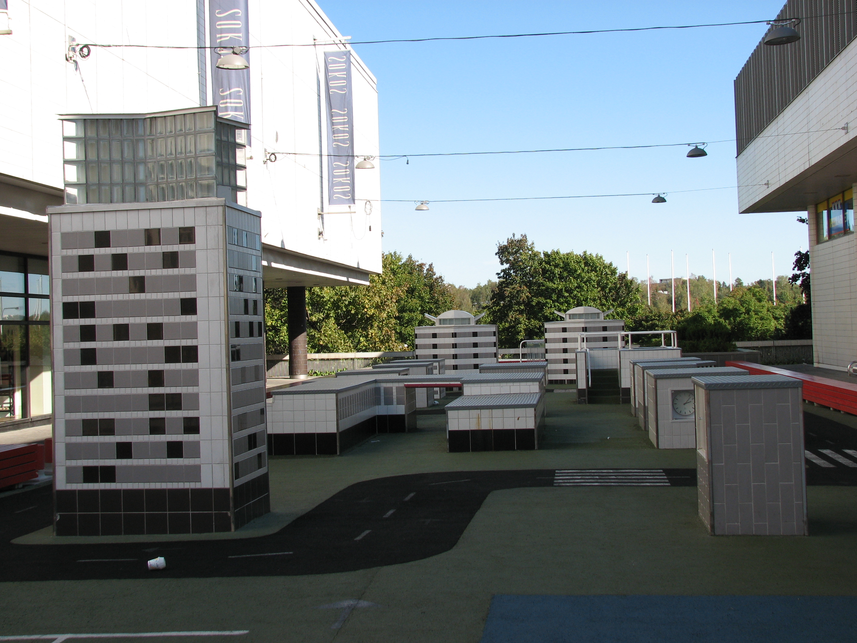 The "Mini-Tapiola" city and traffic park in central Tapiola, Espoo.